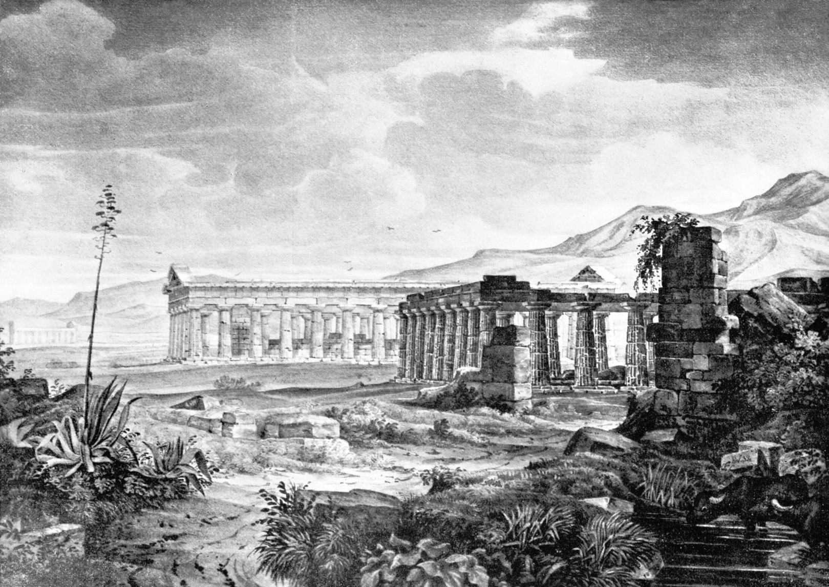 Paestum 1832 by Rudolf Wiegmann.